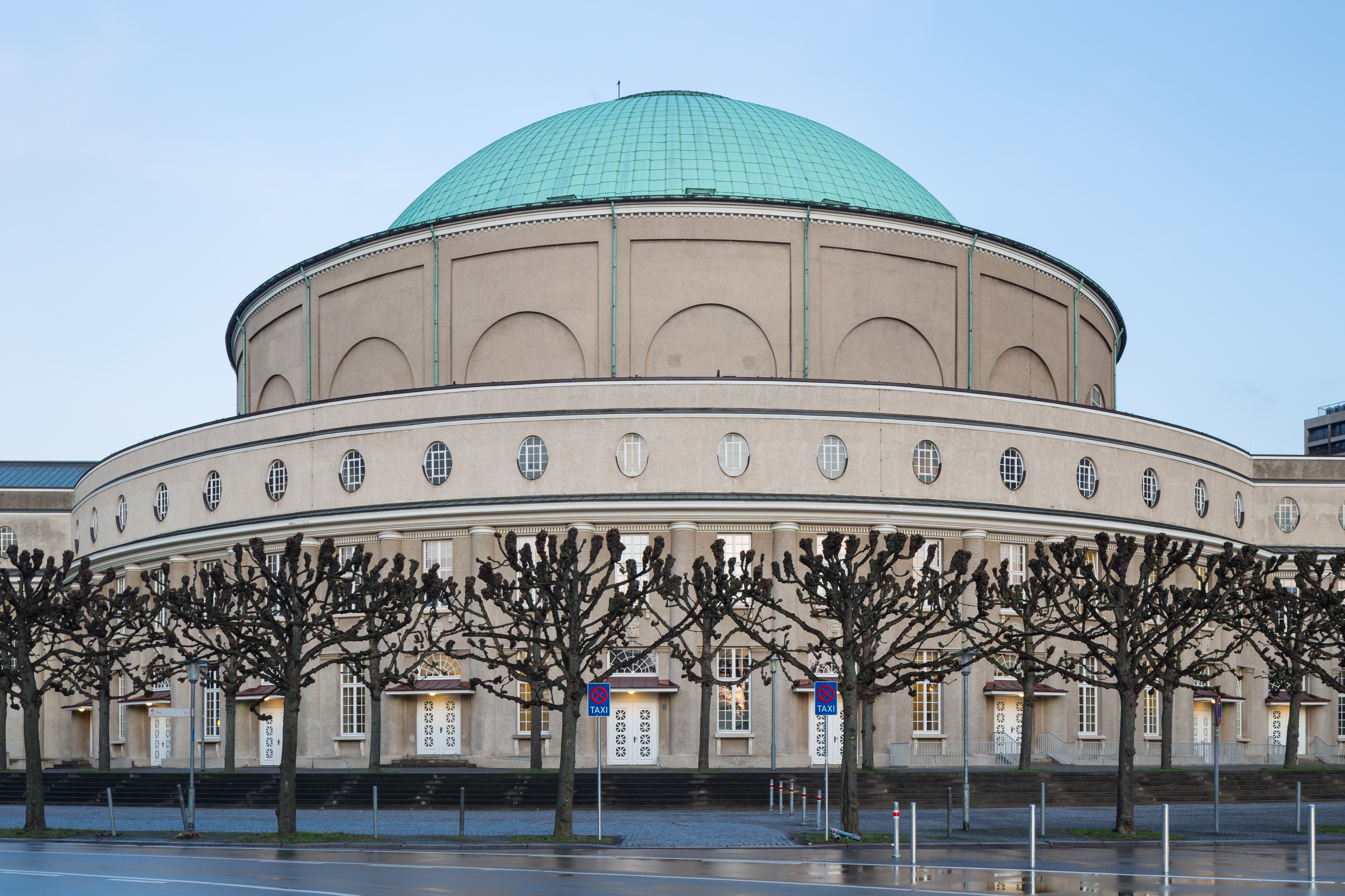 Dome hall of Hannover Congress Centrum located at Theodor-Heuss-Platz square in Zoo quarter of Hannover, Germany. West side.